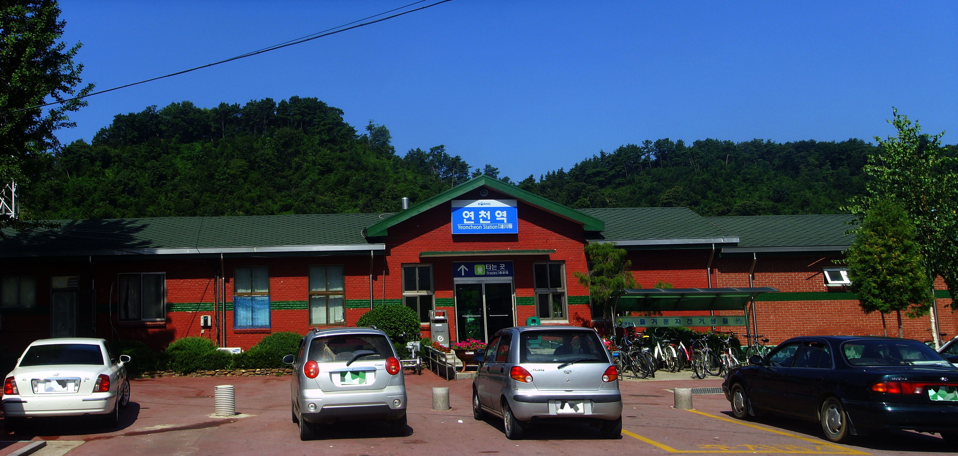 Gyeongwon Line Yeoncheon Station